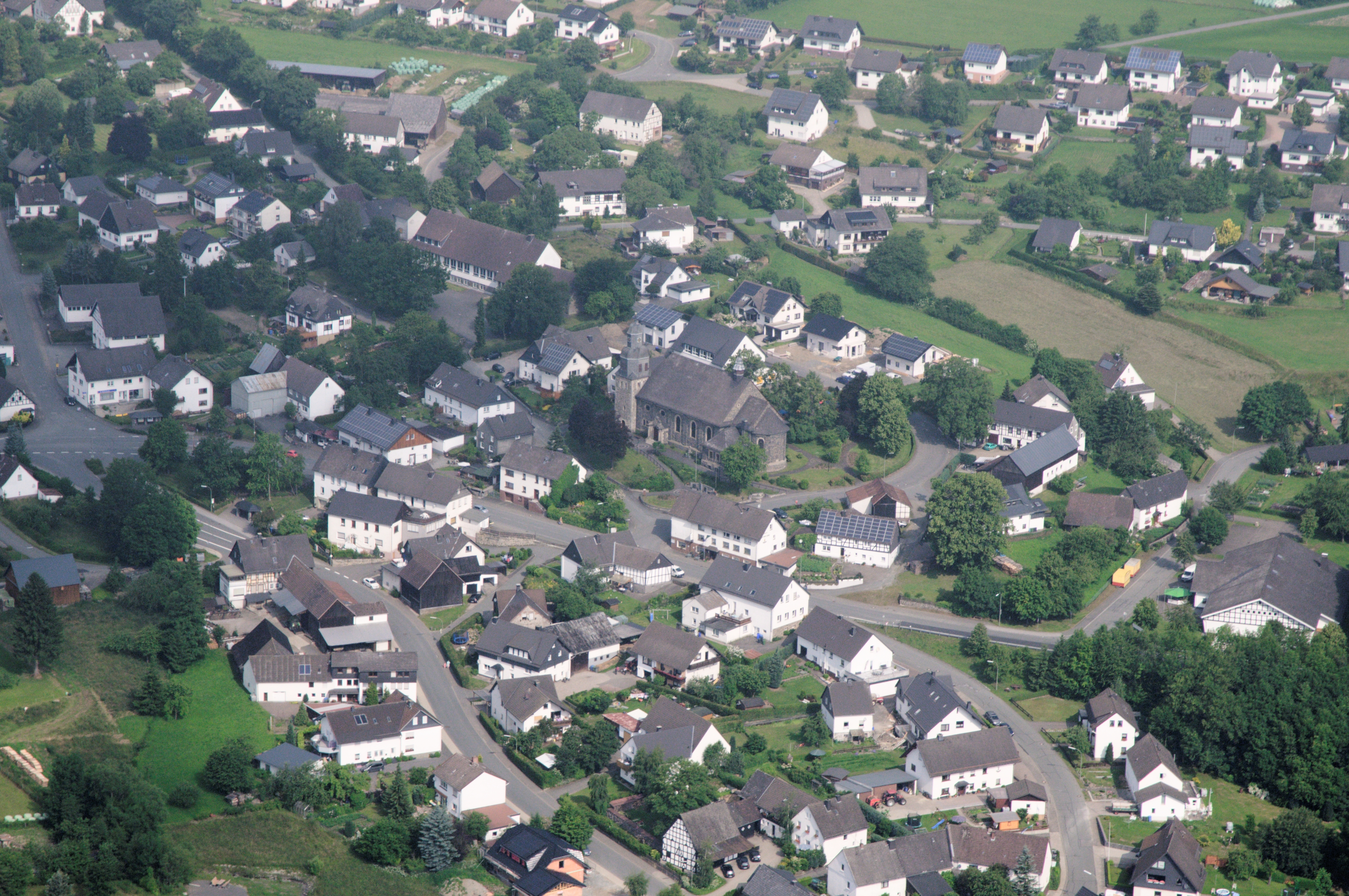 Fotoflug Sauerland-Ost: Hesborner Kirche St. Goar von Süd-Osten The making of this document was supported by the Community-Budget of Wikimedia Germany.